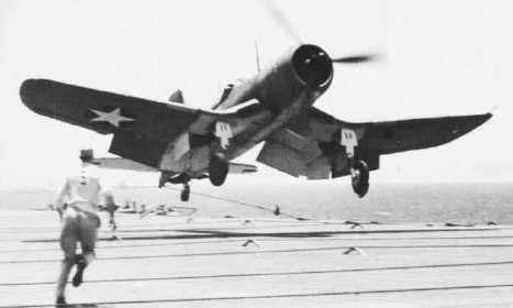 A U.S. Navy Vought F4U-1 Corsair assigned to Fighter Squadron 17 (VF-17) "bouncing" on the flight deck of the aircraft carrier USS Bunker Hill (CV-17) in 1943. The bad landing characteristics of the early F4Us led to the banning of the F4U from carrier decks until 1944 (F4U-2) and 1945 (F4U-1A/D).